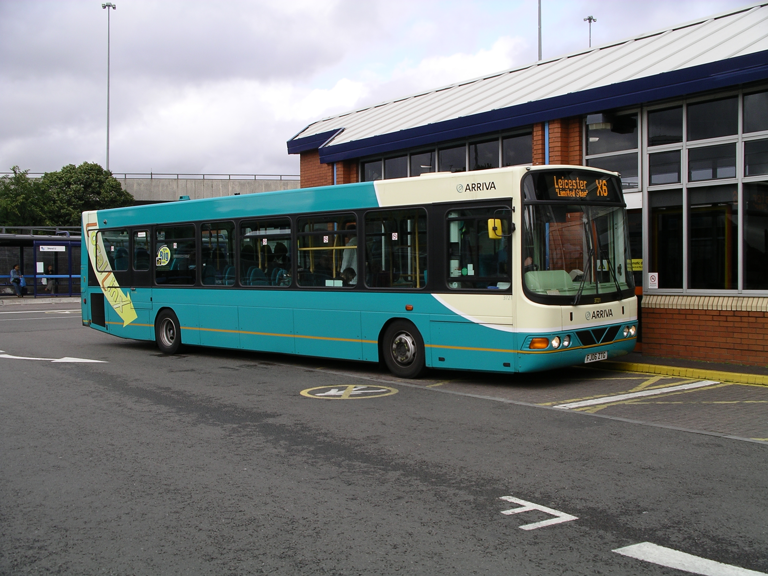 Arriva Fox County's 3721 (FJ06 ZTG), a Lecicester depot-based VDL SB200/Wright Commander in Pool Meadow Bus Station, Coventry, England, on route X6.